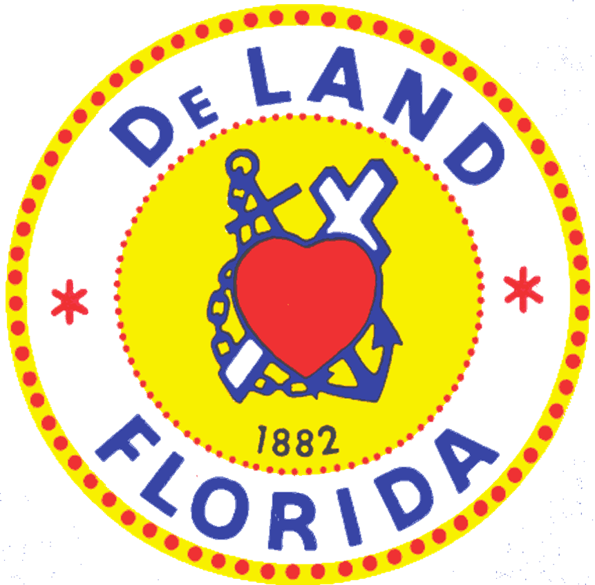 Official seal of the city of DeLand, Florida